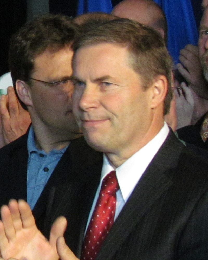 Paul Hinman in Calgary, Alberta, during a Wildrose supporters rally on April 22, 2012 (the day before the election).